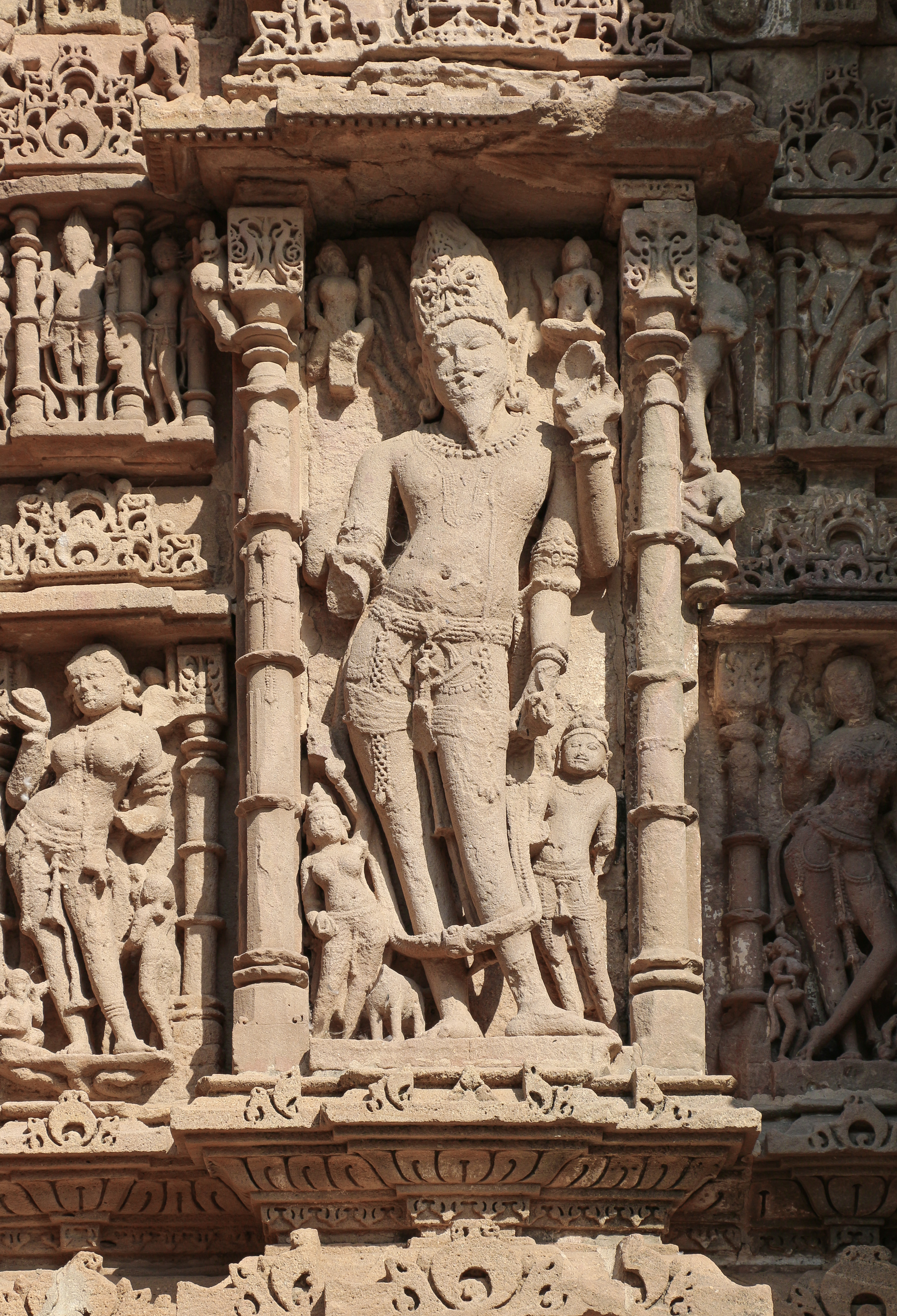 Relief of god Agni on the Guda Mandap, Sun Temple, Modhera, India